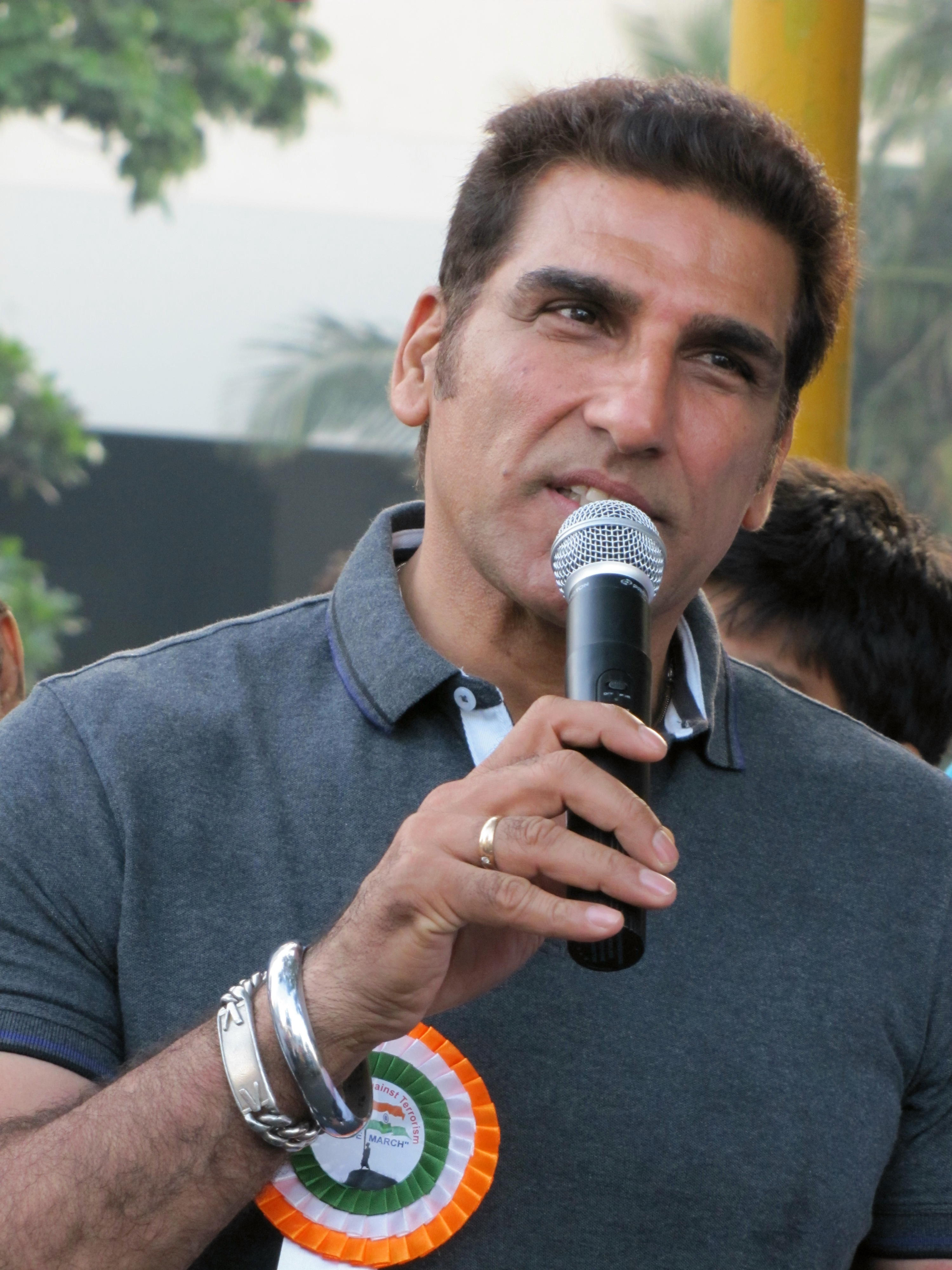 Mukesh Rishi during peace rally conducted in Mumbai on 20th November, 2011 at 7:30AM